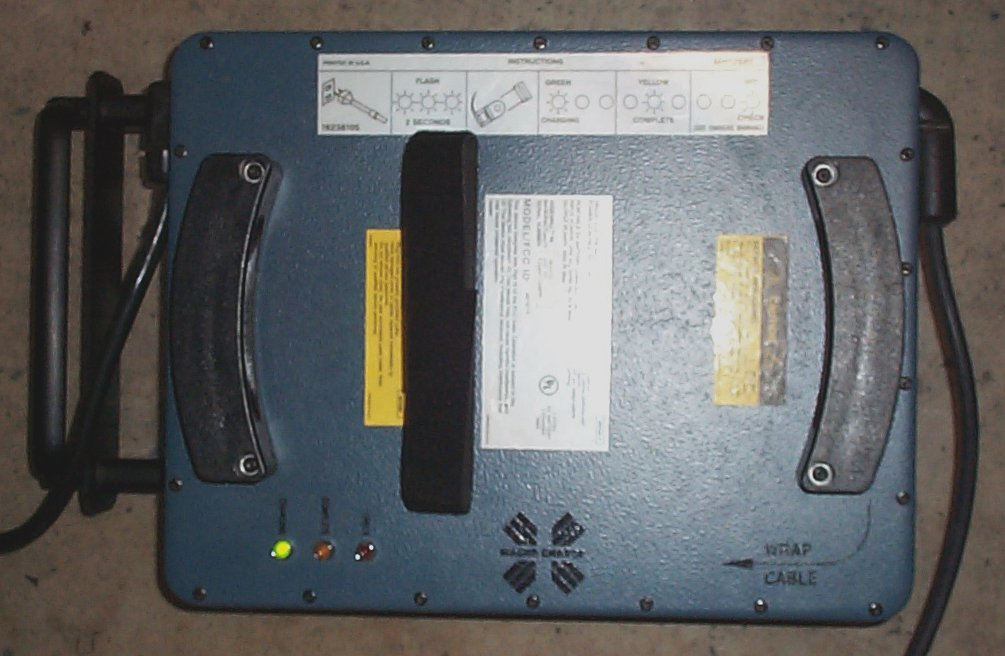 GM EV1 home charging station